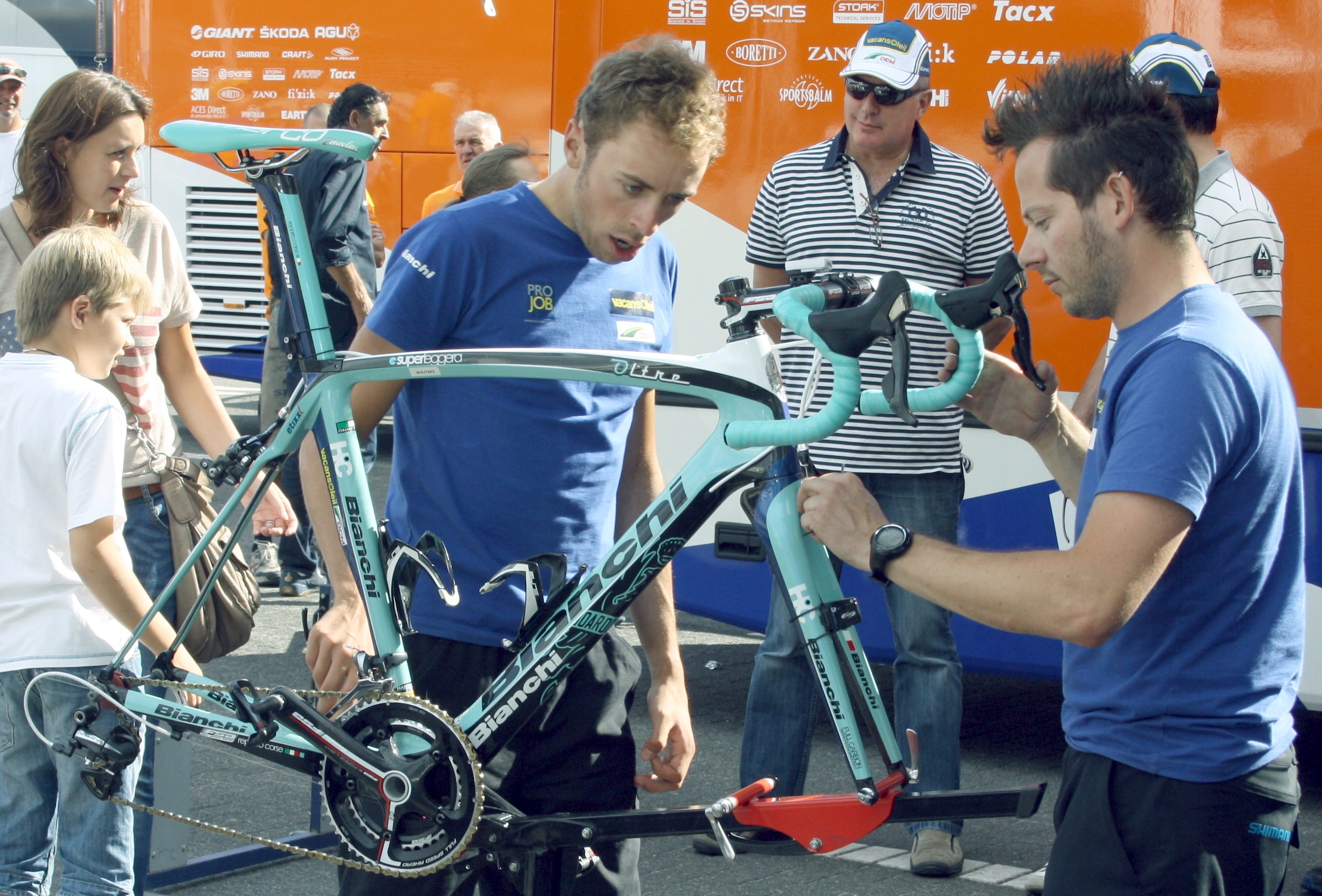 Vacansoleil mechanics with a Bianchi bicycle after the finish of the World Ports Classic 2012 in Rotterdam